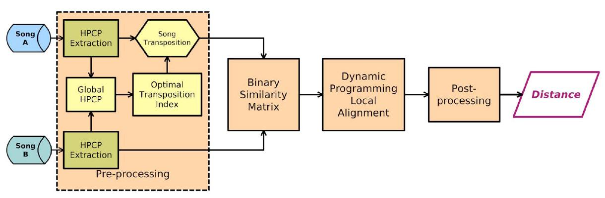 a general block diagram of the song comparing system